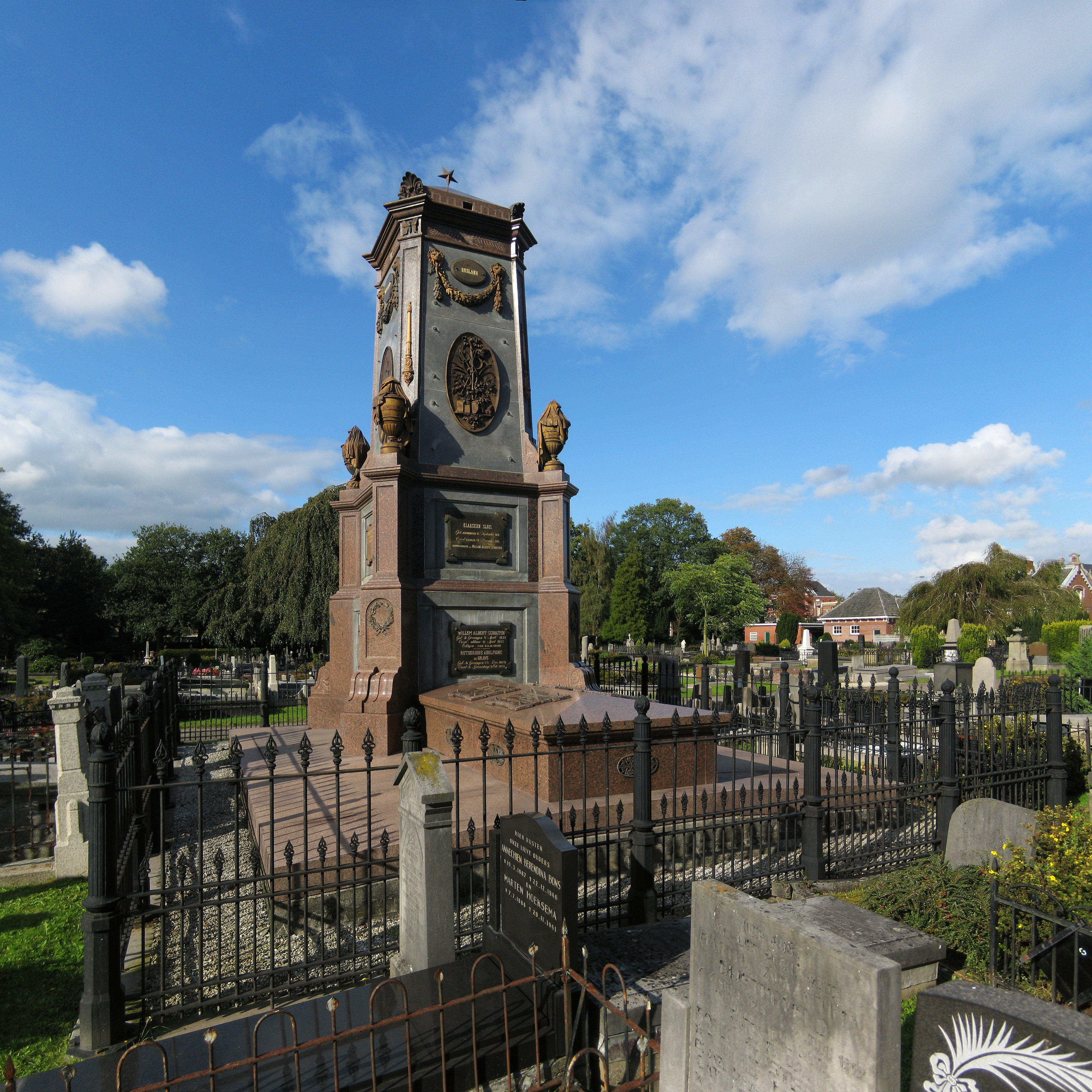 Grave memorial of the Scholten family at the Zuiderbegraafplaats, a cemetery in the Dutch city of Groningen.